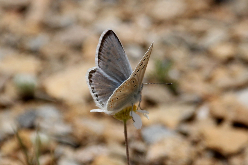 Polyommatus nivescens from Sierra Nevada, Spain.